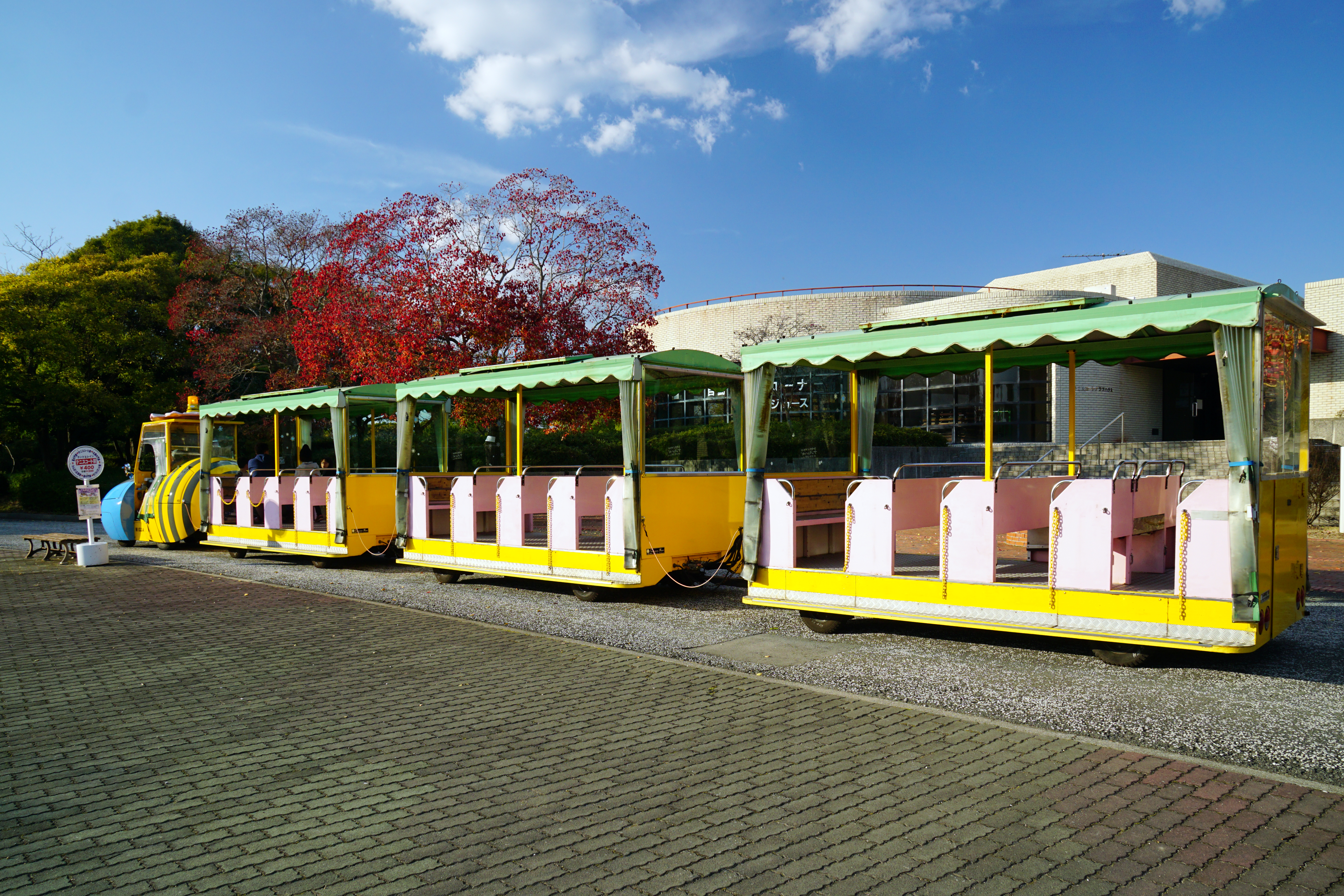 Hyogo prefectural Ako Seaside Park in Ako, Hyogo prefecture, Japan.